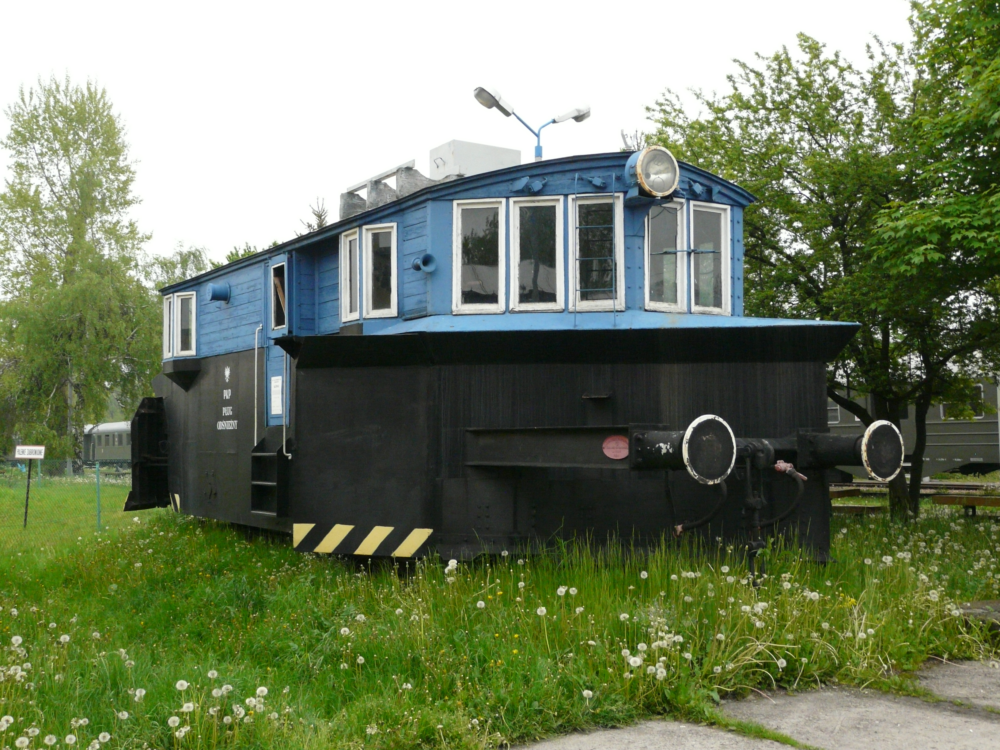 Björke rail snow plough. Chabówka Rolling-Stock Heritage Park